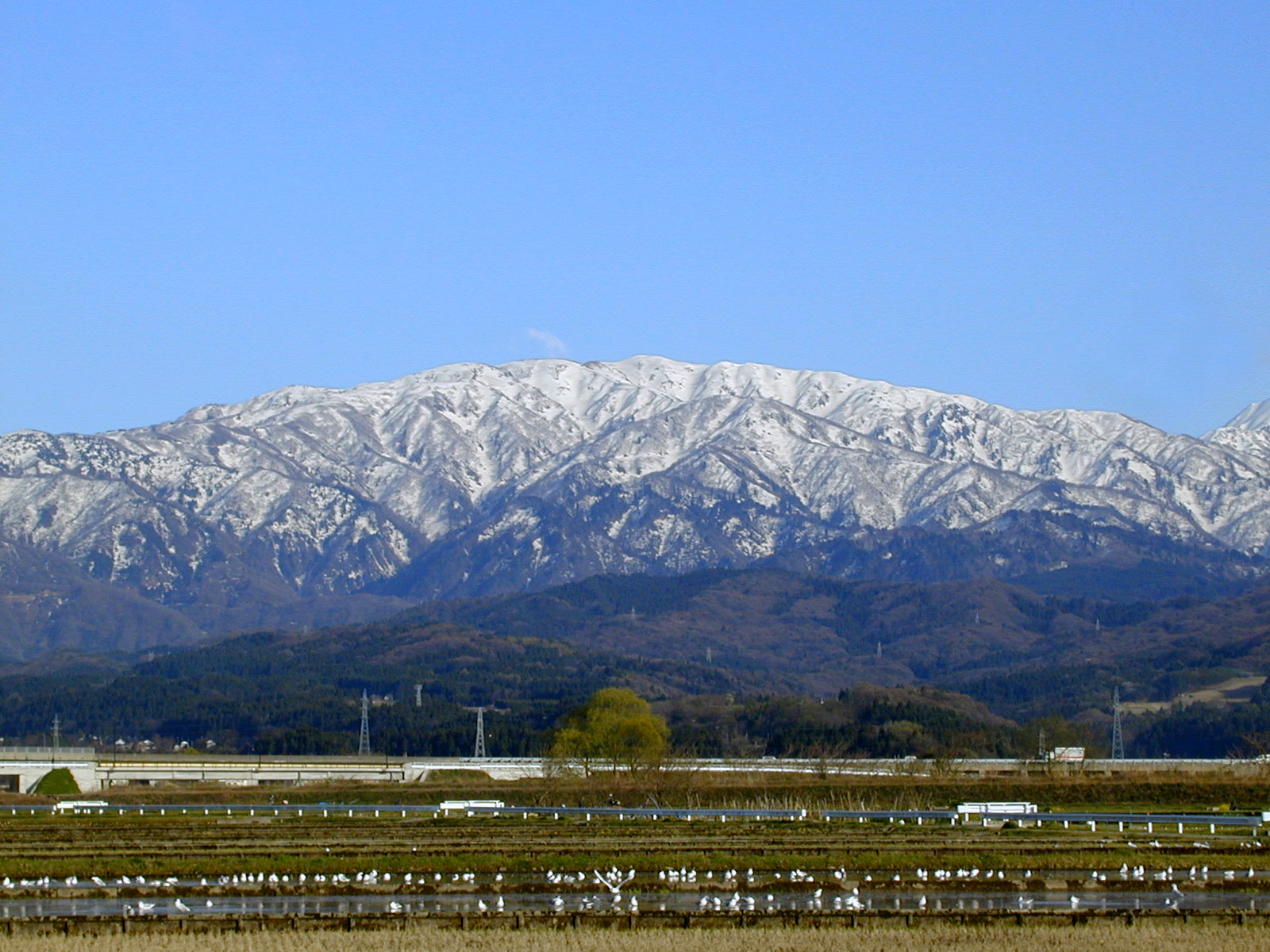 Mount So (Sogatake) as seen from the northwest.